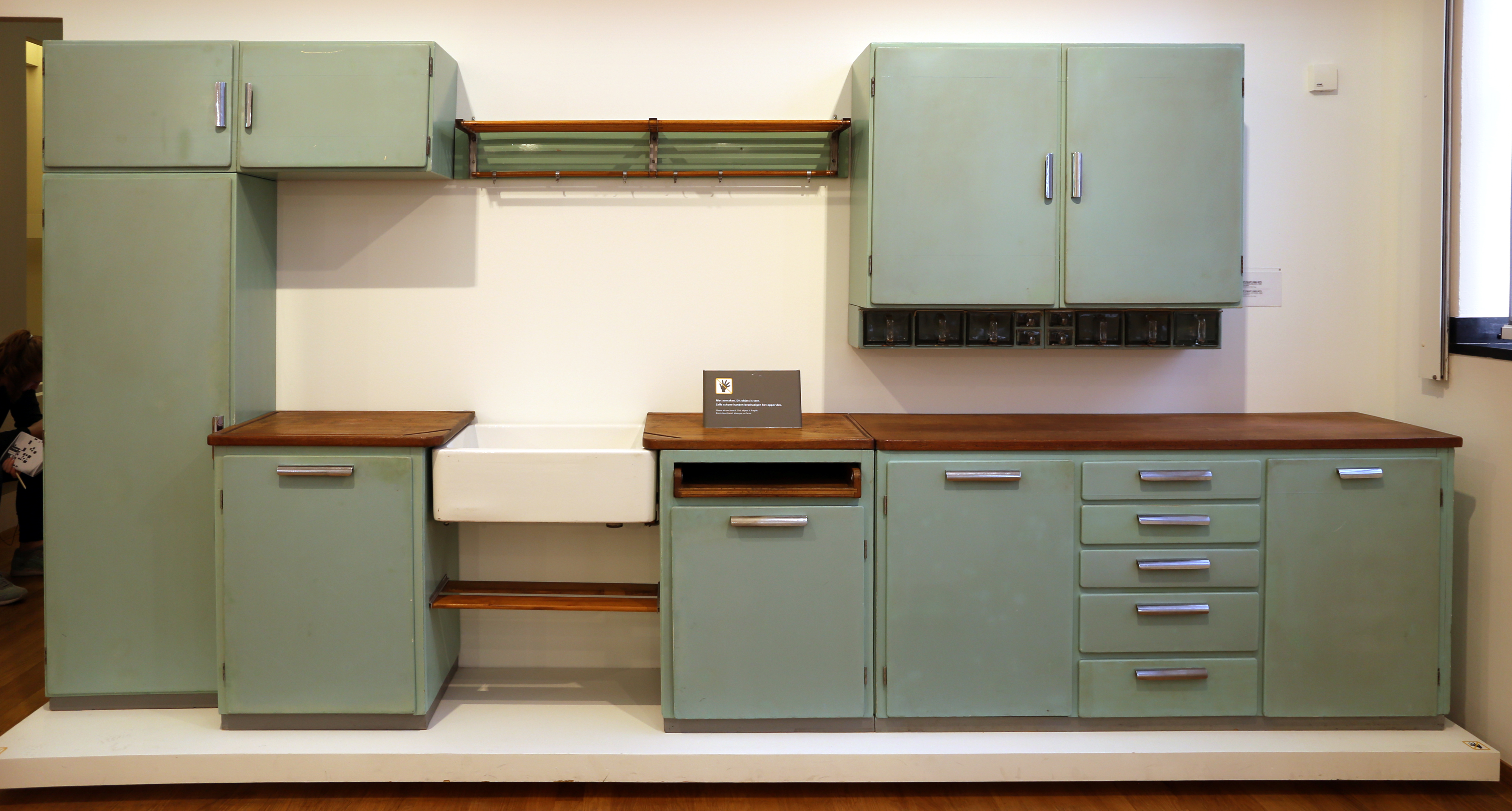 Furniture in the Gemeentemuseum Den Haag